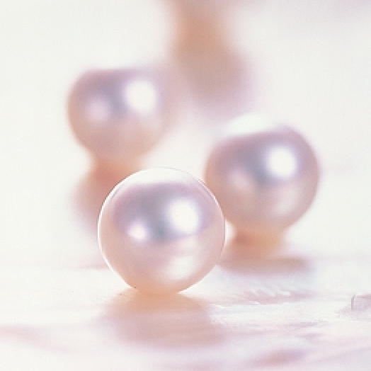 Pink Akoya pearl,524px × 524px,150,26 Kb